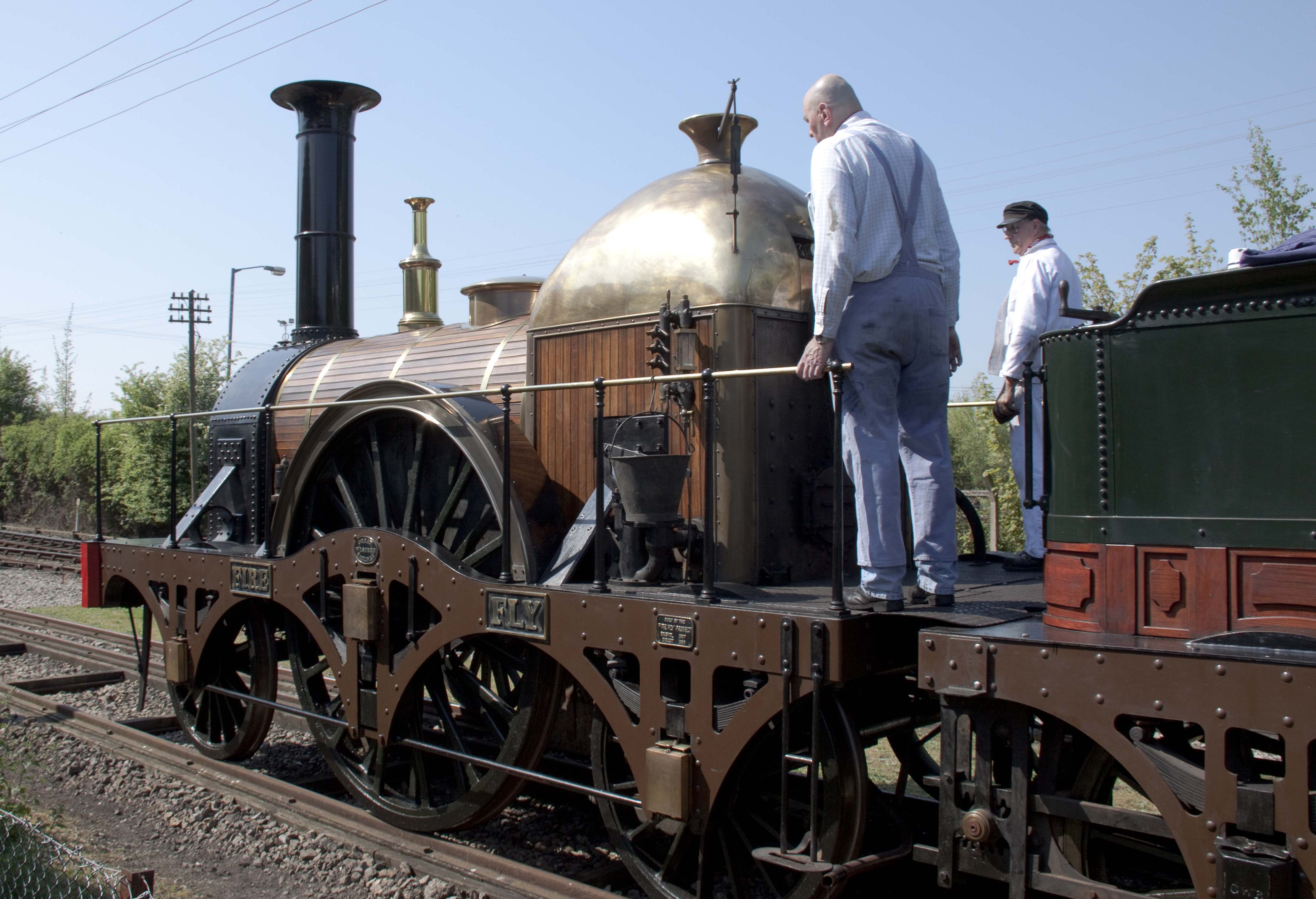 Fire Fly 5